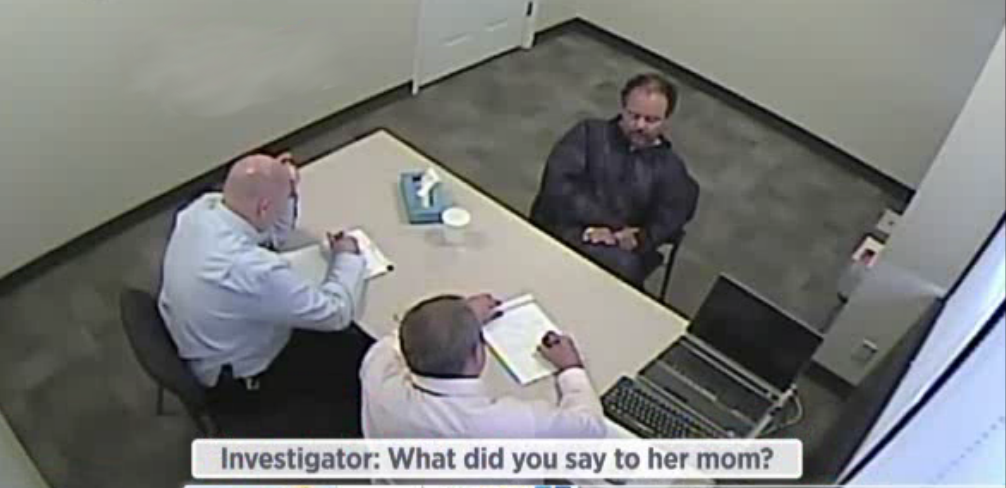 Shows Ariel Castro during his interrogation with the FBI. Screen capture from the video posted on USA , cropped to remove the Today Show captions and graphics.